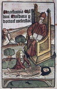 Alessandra Giliani ~1307 - March 26, 1326, image uploaded from